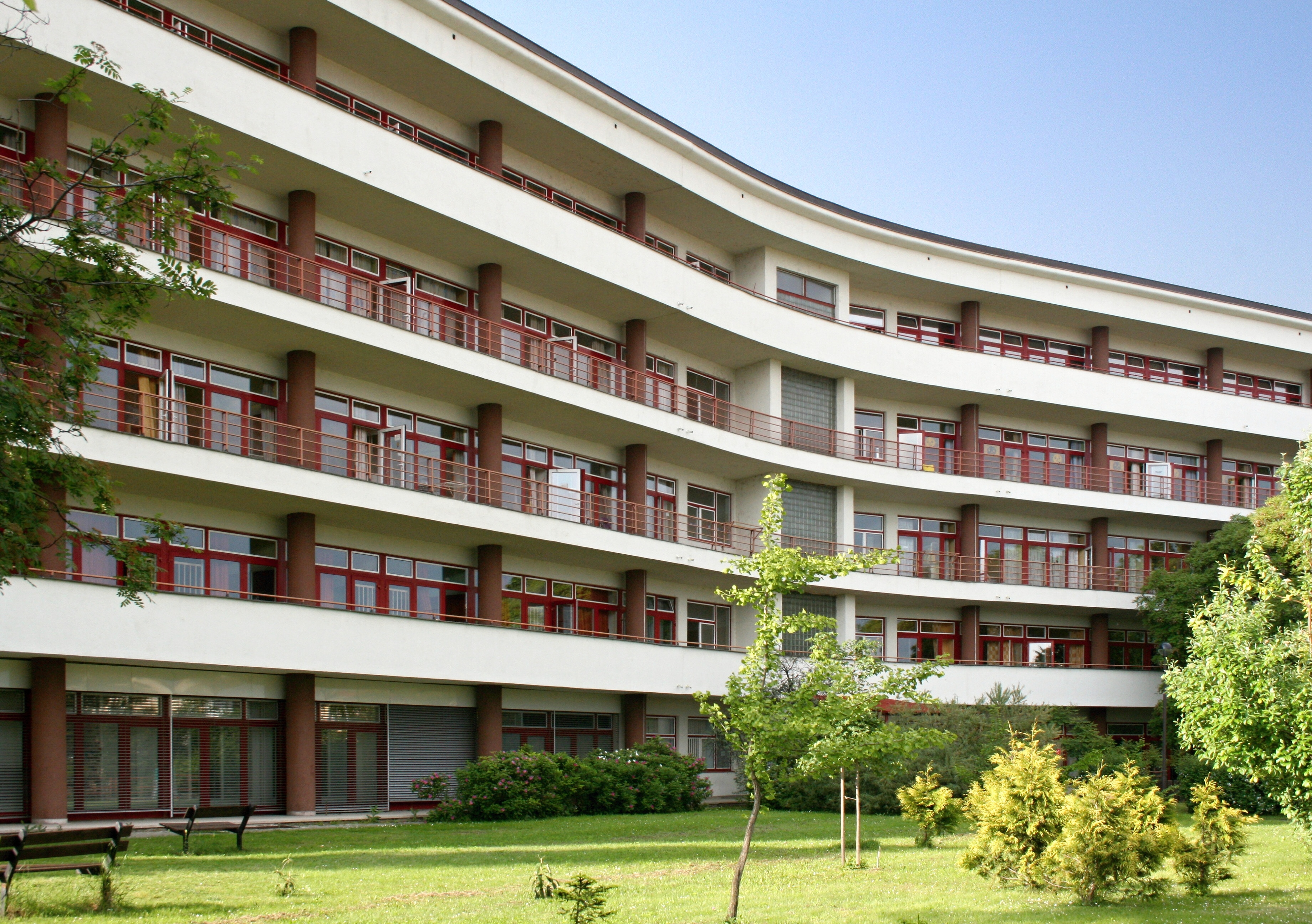 Children hospital, Černopolní street, Brno. Pavilions B1 & B2.